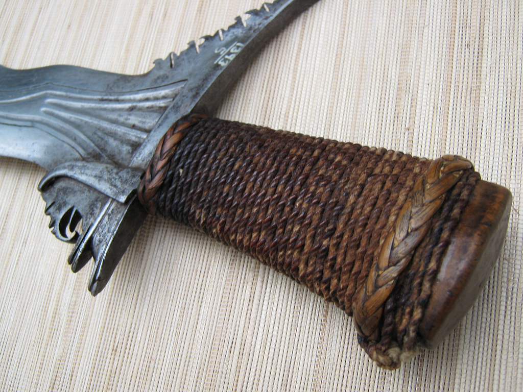 "The hilt of kris are either straight or slightly curved (most common on cockatua pommel hilts). Pommel variations are many, however the most common are the horse-hoof (the most distinctive variation coming from the Sulu Sultanate) and the cockatua. Commonly the pommel is made of beautiful hardwood burl (such as banati) with the hilt being wrapped in a lacquered natural fiber (such as jute). However on higher end kris, belonging to the upper class, the pommel would be made of such exotic materials as ivory, silver plating, solid brass, etc... with hilts often lavishly bound with silver or swasaa (an alloyed mixture of gold similar to red-gold) bands frequently with braided silver wire interspersing the chased bands. Large junggayan (a Sulu term denoting the elongated style, though elongated styles can be found all over Moro-land) and Danangan (literally meaning decorative, but used most commonly to describe the large embellished cockatuas) style cockatuas appeared in the 19th century, while older kris pommels sported medium to small cockatuas. The oldest krises are found with hilts of a much diminutive stature, with the cockatua versions retaining only vestigial elements of a crest. The axis of the hilt (whether straight or curved) is always at an angle to conform the blade angle, when properly held with the guard up, to the arc of a circle. Thereby the angle of the blade when swung conforms to the cutting arc of the wielder maximizing the cutting potential of the blade." From The above example is that of a simple hilt, wrapped in lacquered fiber, to improve grip. Having a non-ornate hilt and pommel, the above kris must have come from a typical Moro warrior. The above kris' overall photo can be seen here The kris is a 19th century piece, and it came from the Cheney Cowles museum (Spokane, Washington). Other uploaded materials by the same author are here: (a) Luzon weapons; (b) Visayan weapons; (c) Moro weapons; and (d) Lumad (non-Moro Mindanao) weapons